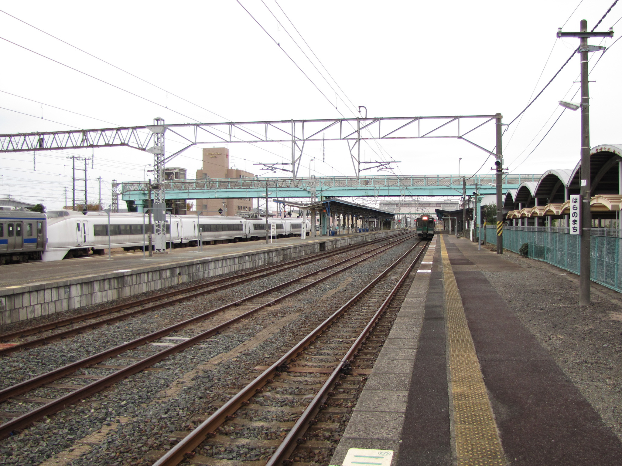 Haranomachi Station on the Joban Line with stranded 415-1500 and 651 series (set K202) EMUs stabled on the left